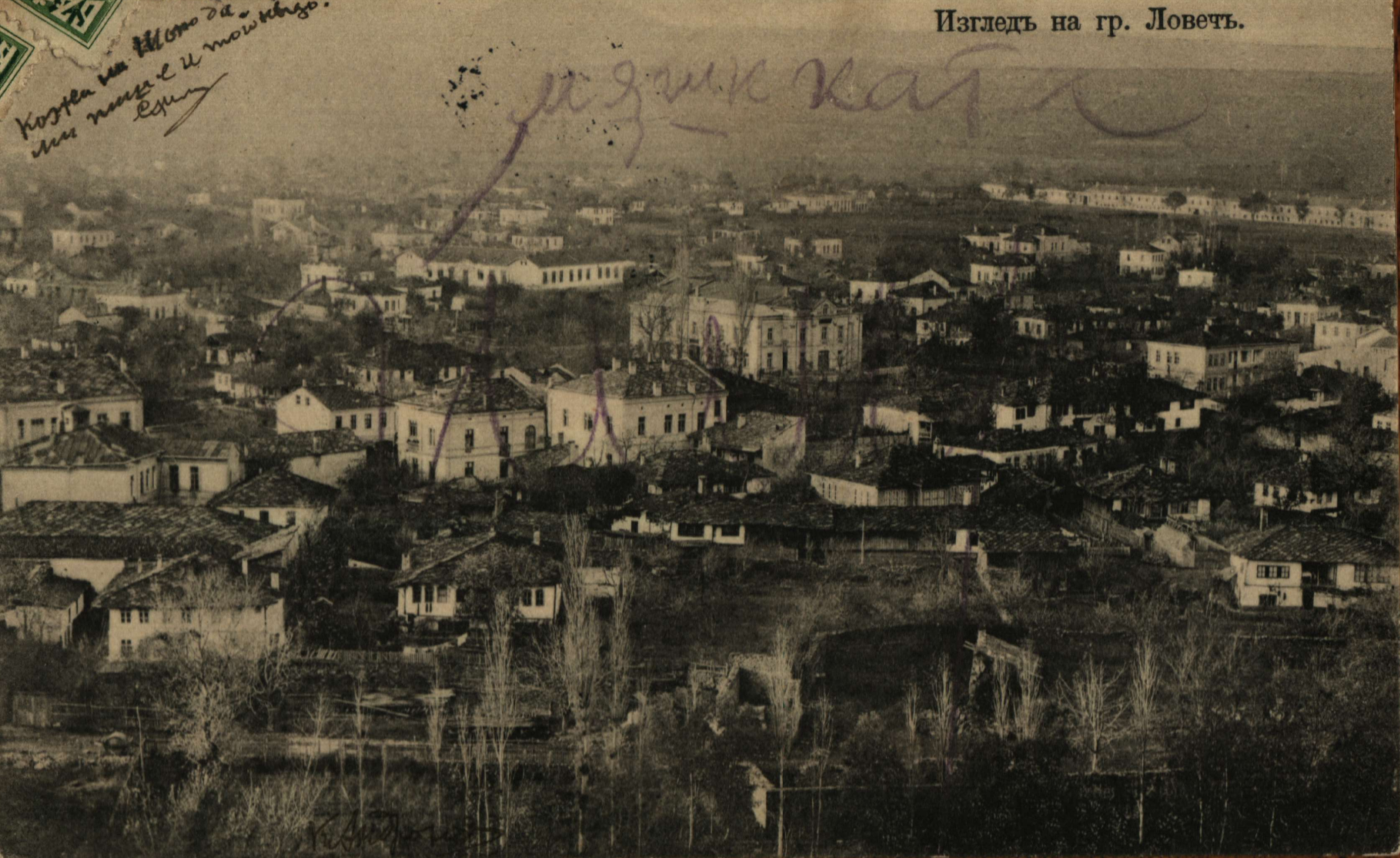 Lovech, Bulgaria